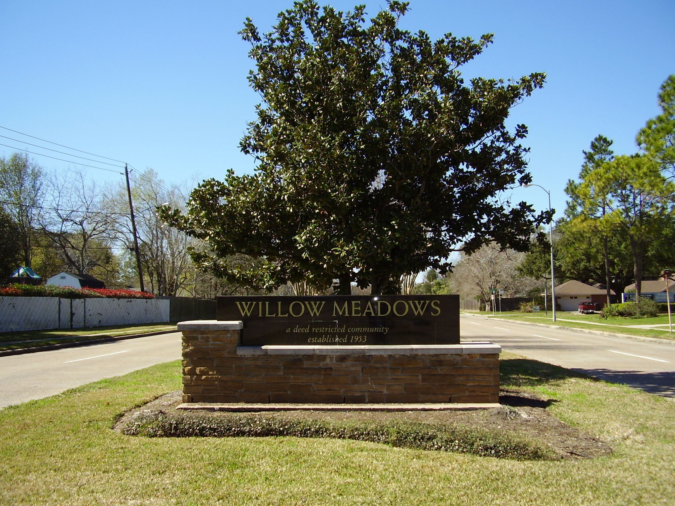 Willow Meadows subdivision marker - Taken by WhisperToMe